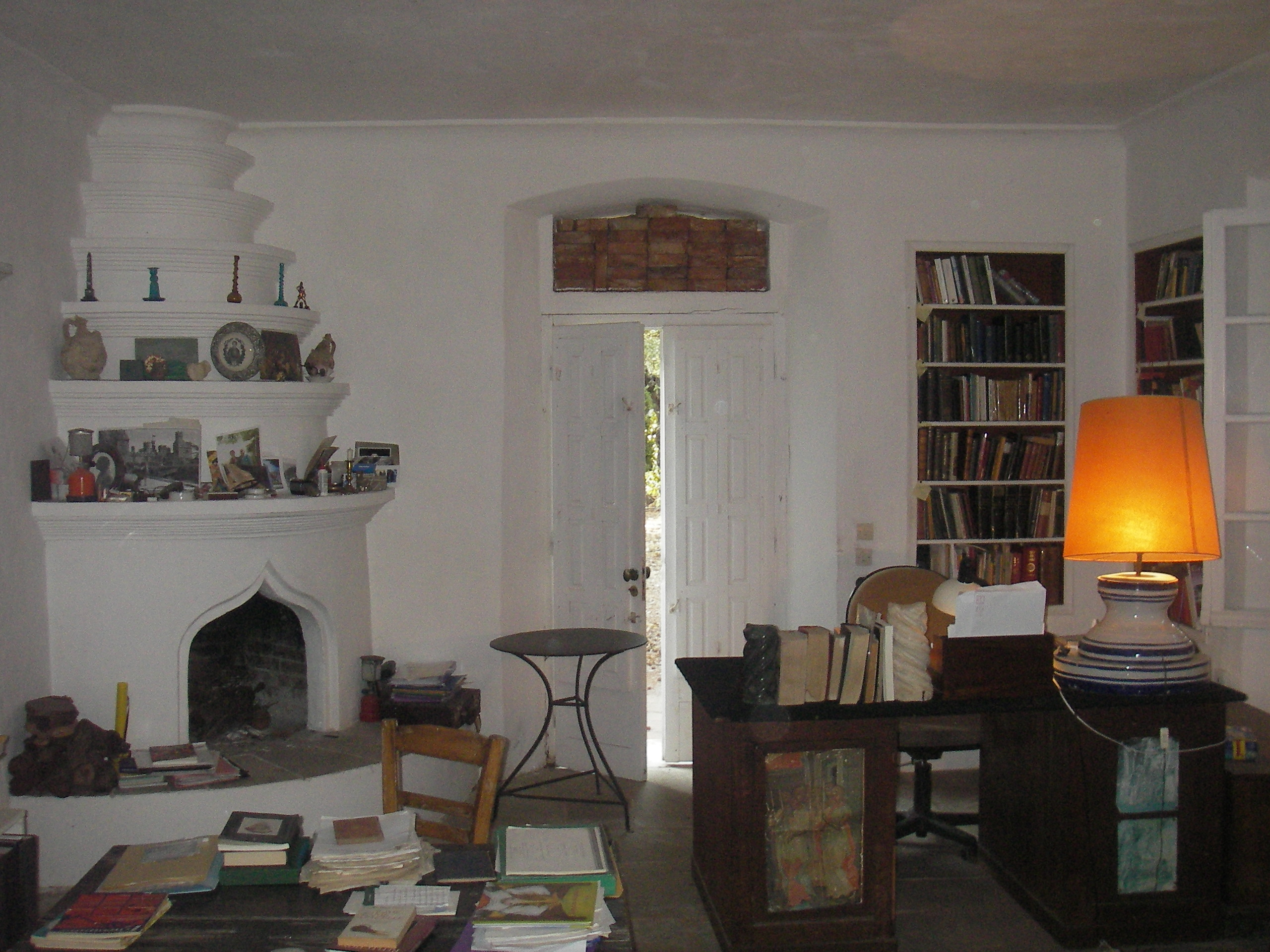 Photo (by me, R. de Salis Rodolph (talk) 22:20, 23 November 2014 (UTC)) of Sir Patrick Michael Leigh Fermor's office, c. 2009, view out of door.